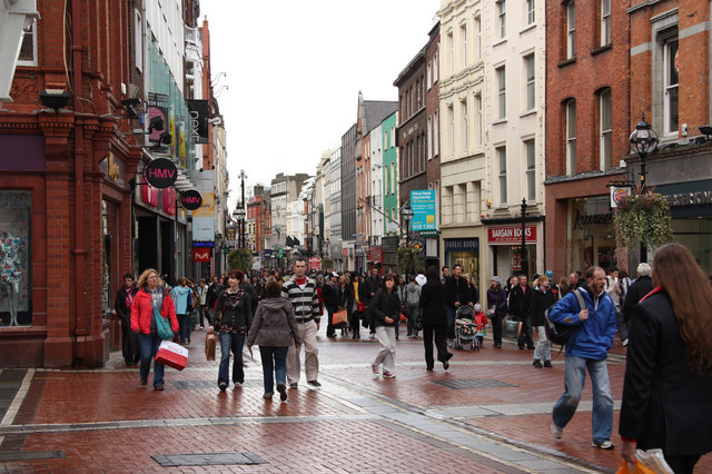 Grafton Street Main shopping thoroughfare in Dublin city centre